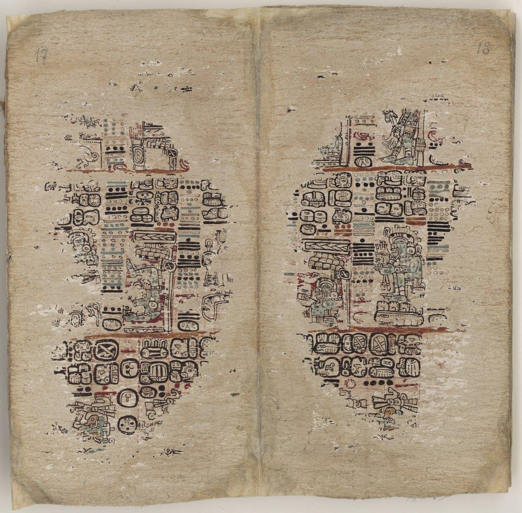 Pages 15-16 of the Paris Codex, a Postclassic Maya book.